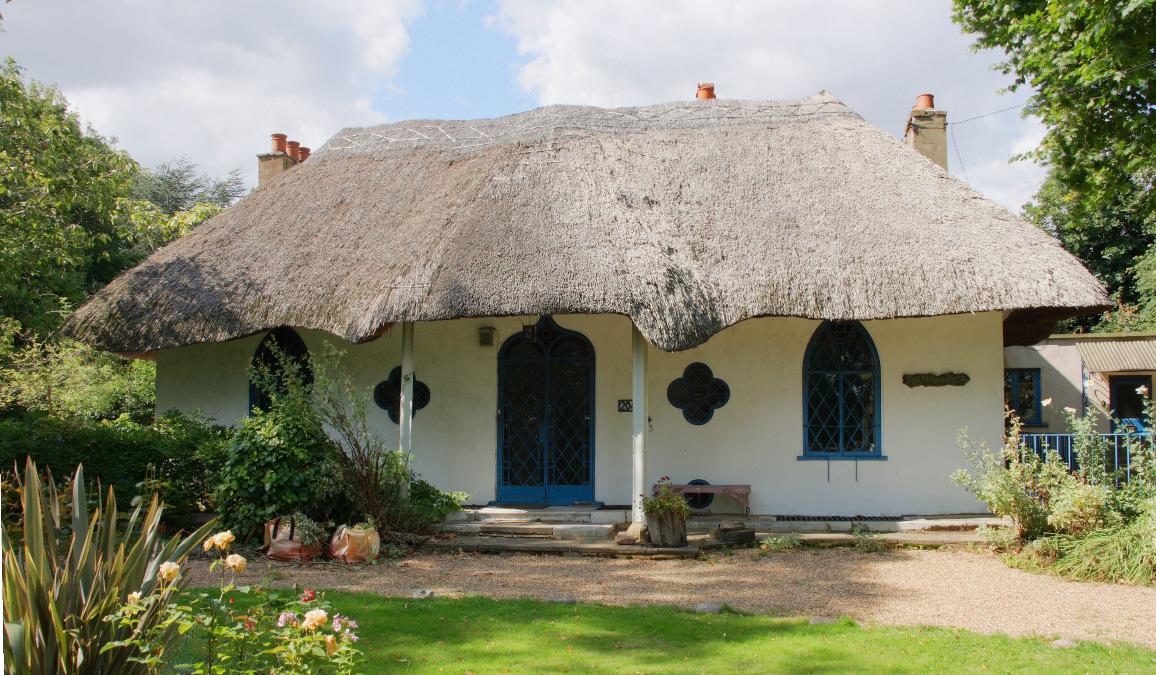 The Hermitage -Hanwell W7 This cottage orné was built by the rector George Henry Glasse in 1809 on the site of a previous house called the Elms. Later it became the head quarters for the Selborne Society. Nikolaus Pevsner describes it thus: “a peach of an early c19 Gothic thatched cottage with two pointed windows, a quatrefoil, and an ogee arched door, all on a minute scale. Inside, an octagonal hall and reception room” (Pevsner, London 3: North West). It is a Grade II Listed Building Behind the cottage lies a spring, which may be the origin behind the 'well' being incorporated into the local place name of Hanwell.